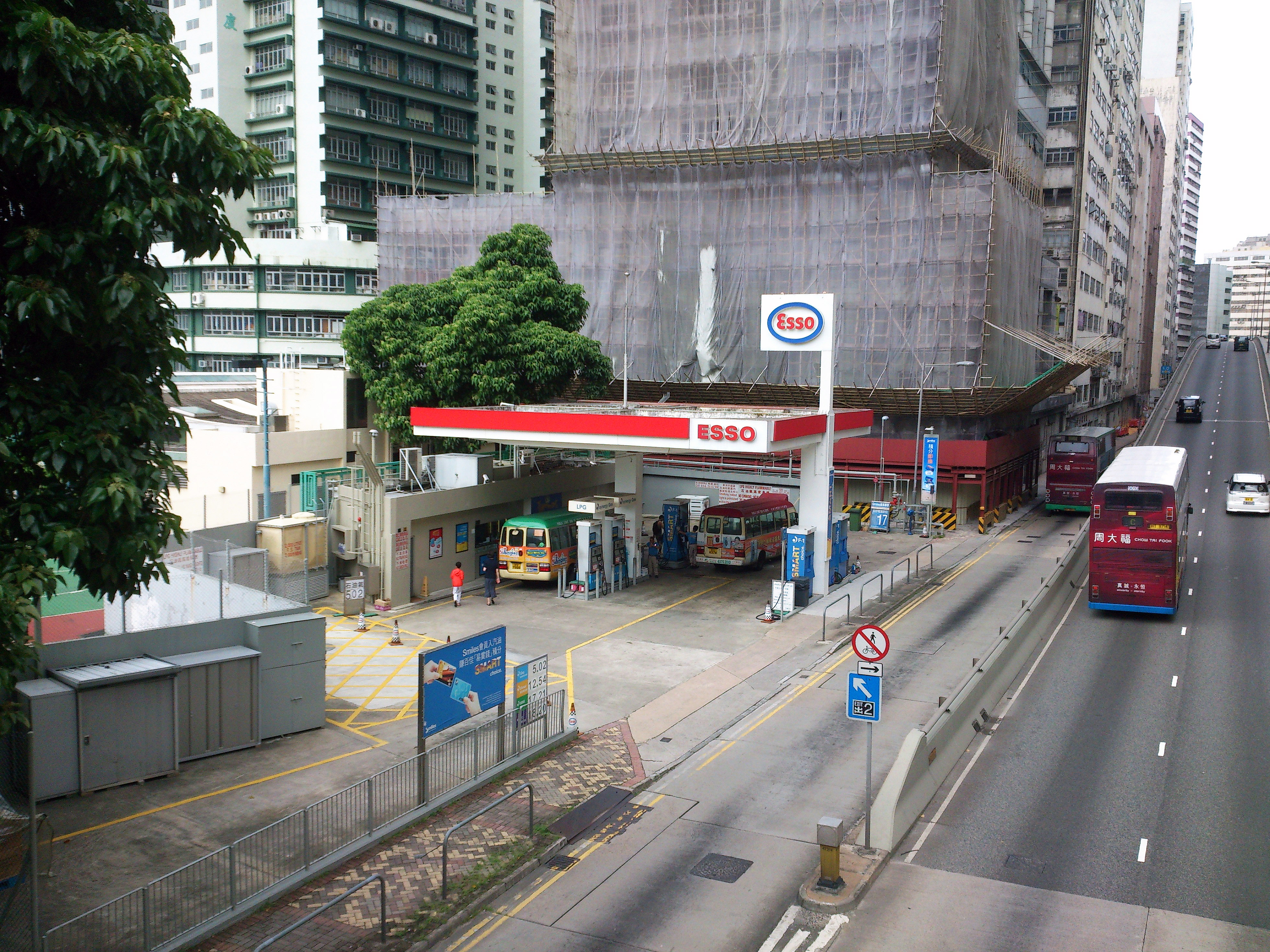 Wong Chuk Hang Esso petrol station